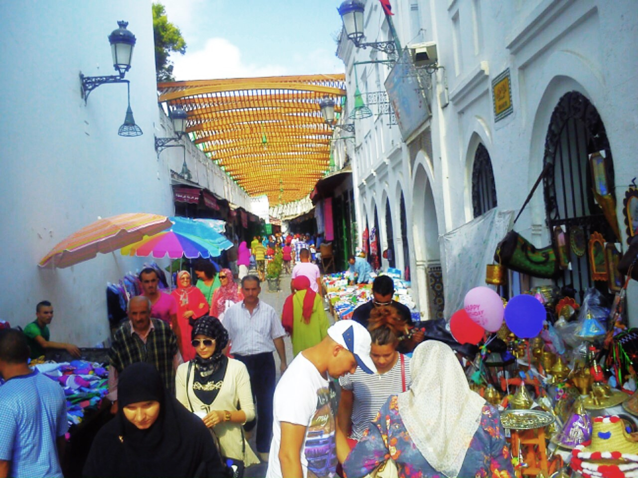 Souk in tetouan (Popular market)